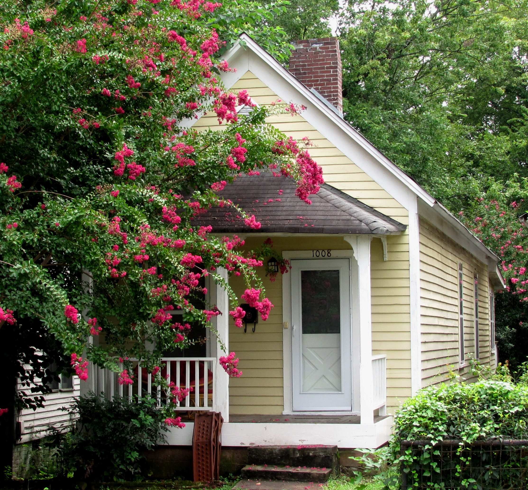 House at 1008 McGhee Avenue in the Mechanicsville neighborhood of Knoxville, Tennessee, USA. Built in 1910, this house is now a contributing property within the NRHP-listed Mechanicsville Historic District.